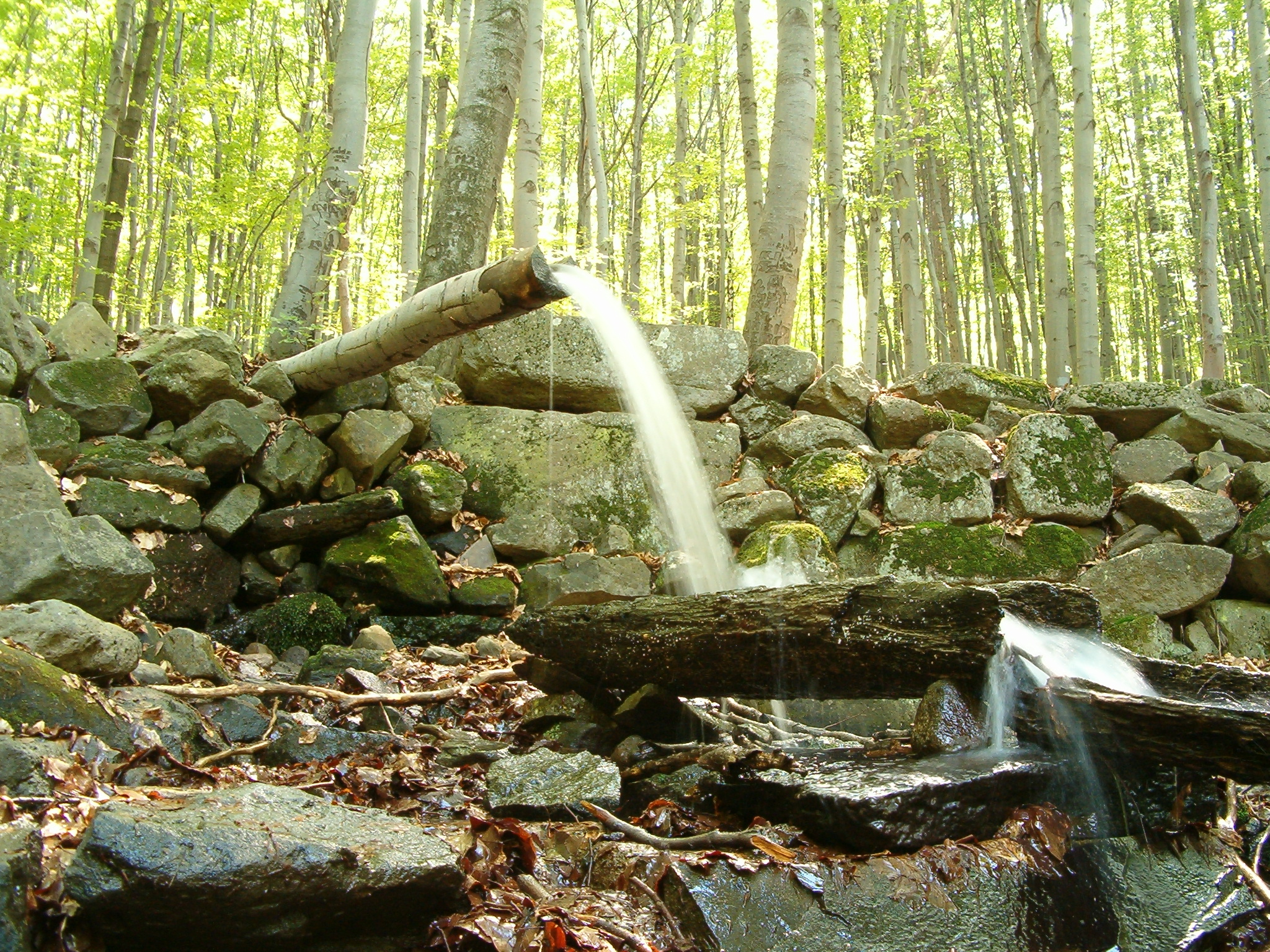 A spring in the Mátra Mountains, near the Pisztrángos Lake